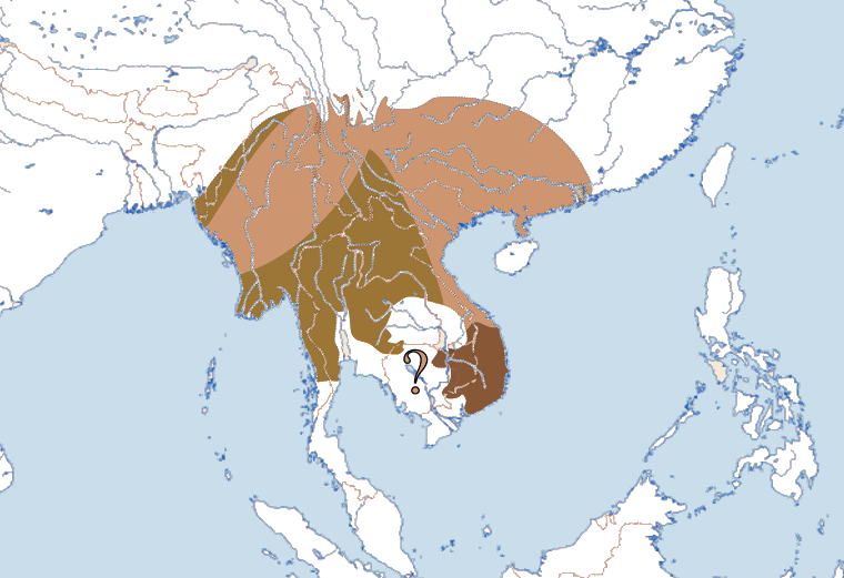 Distribution Map Lanius collurioides